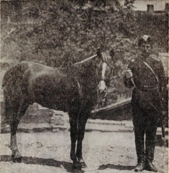 Karabakh stallion